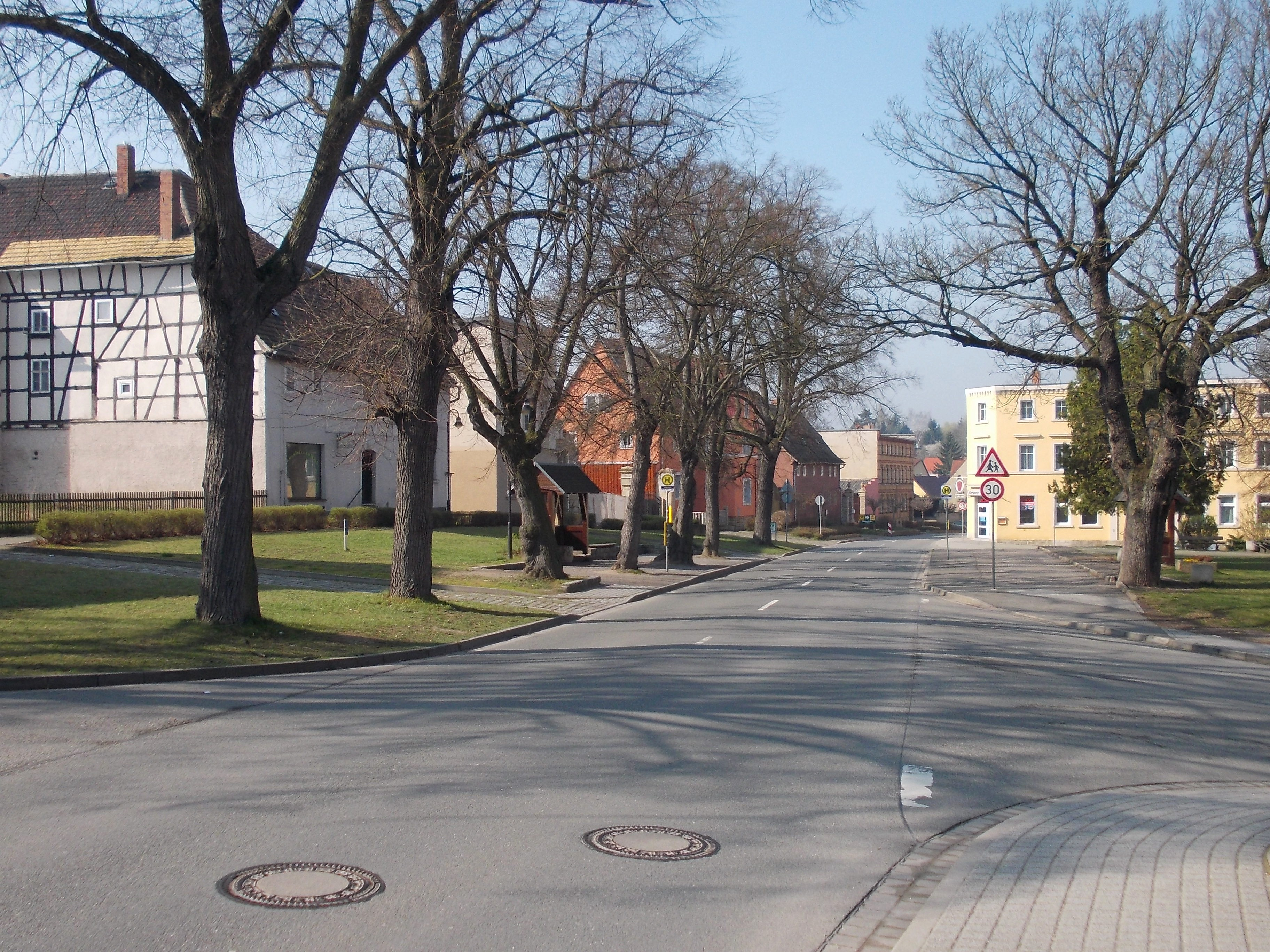 Market square in Droyssig (district: Burgenlandkreis, Saxony-Anhalt)